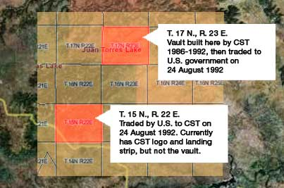 Map showing land plots near Trementina, New Mexico. Made from PD government plot maps overlaid on PD government satellite map image-fix to older file